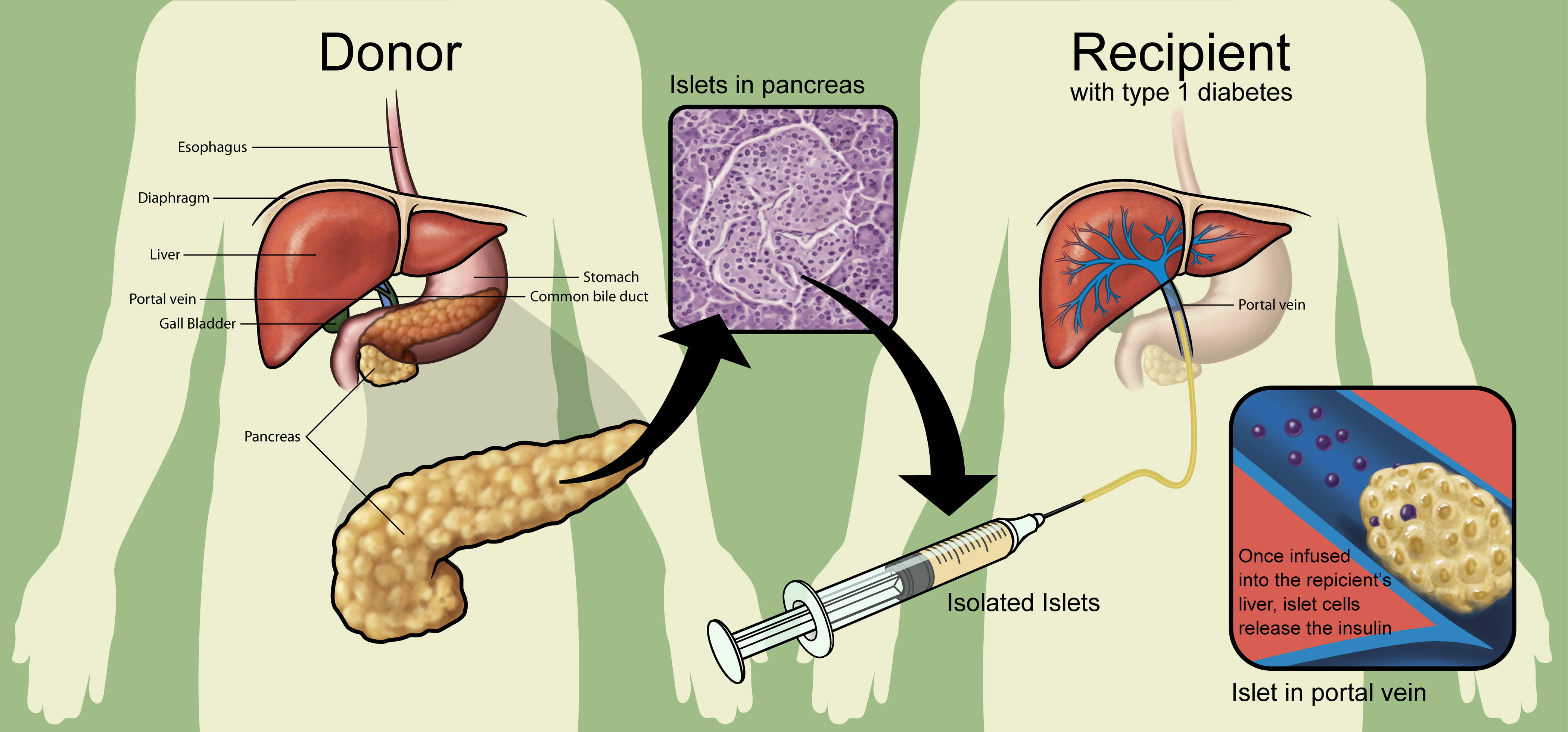 The process of clinical islet transplantation for the treatment of diabetes mellitus